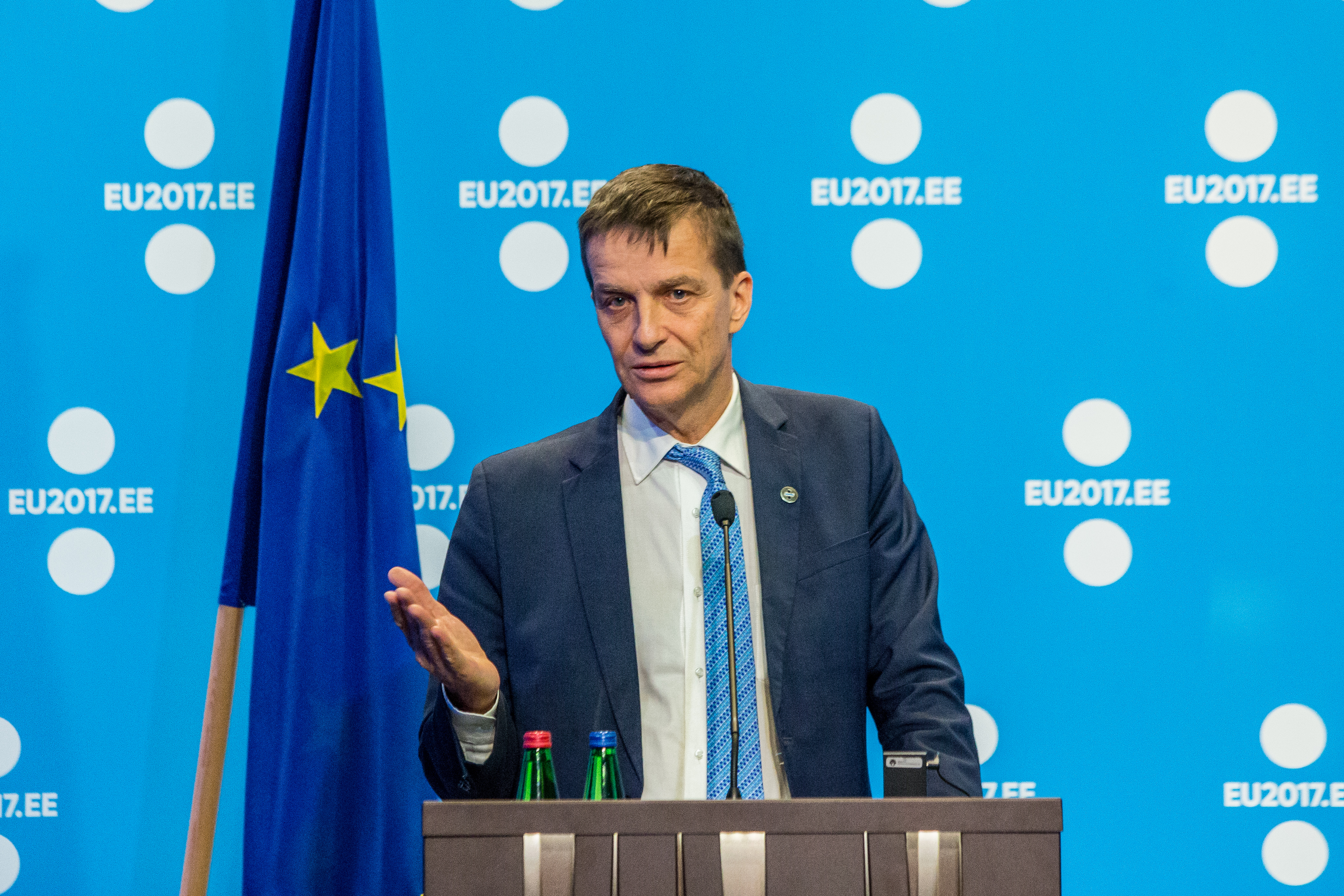 Ardo Hansson, Governor of Bank of Estonia Photo: Aron Urb (EU2017EE)